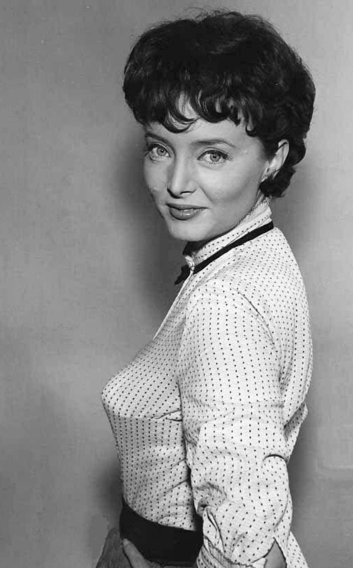 Photo of Carolyn Jones from a guest appearance on Wagon Train.